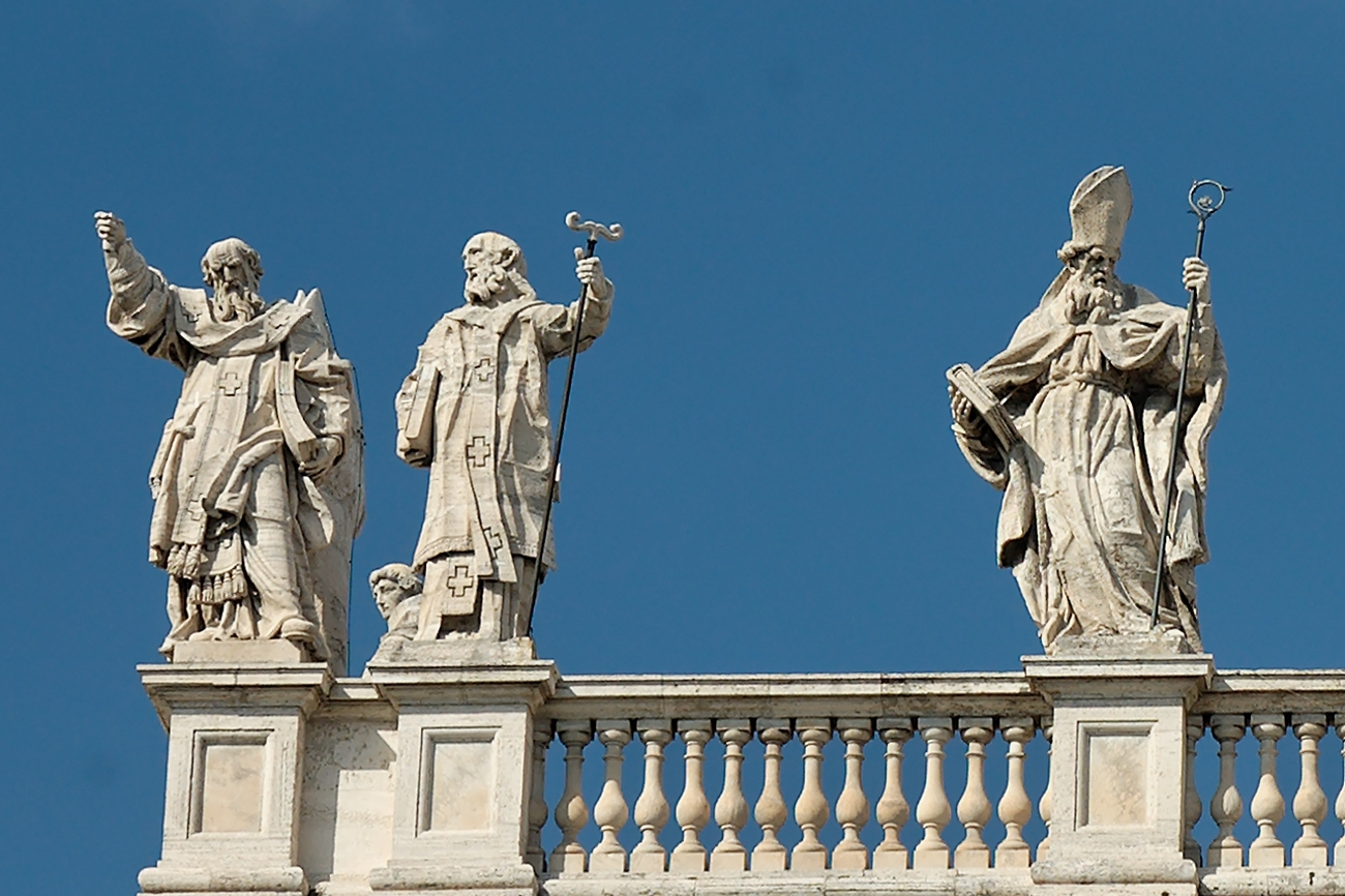 Doctors of the Church. Attic of the Basilica of St. John Lateran (Rome).